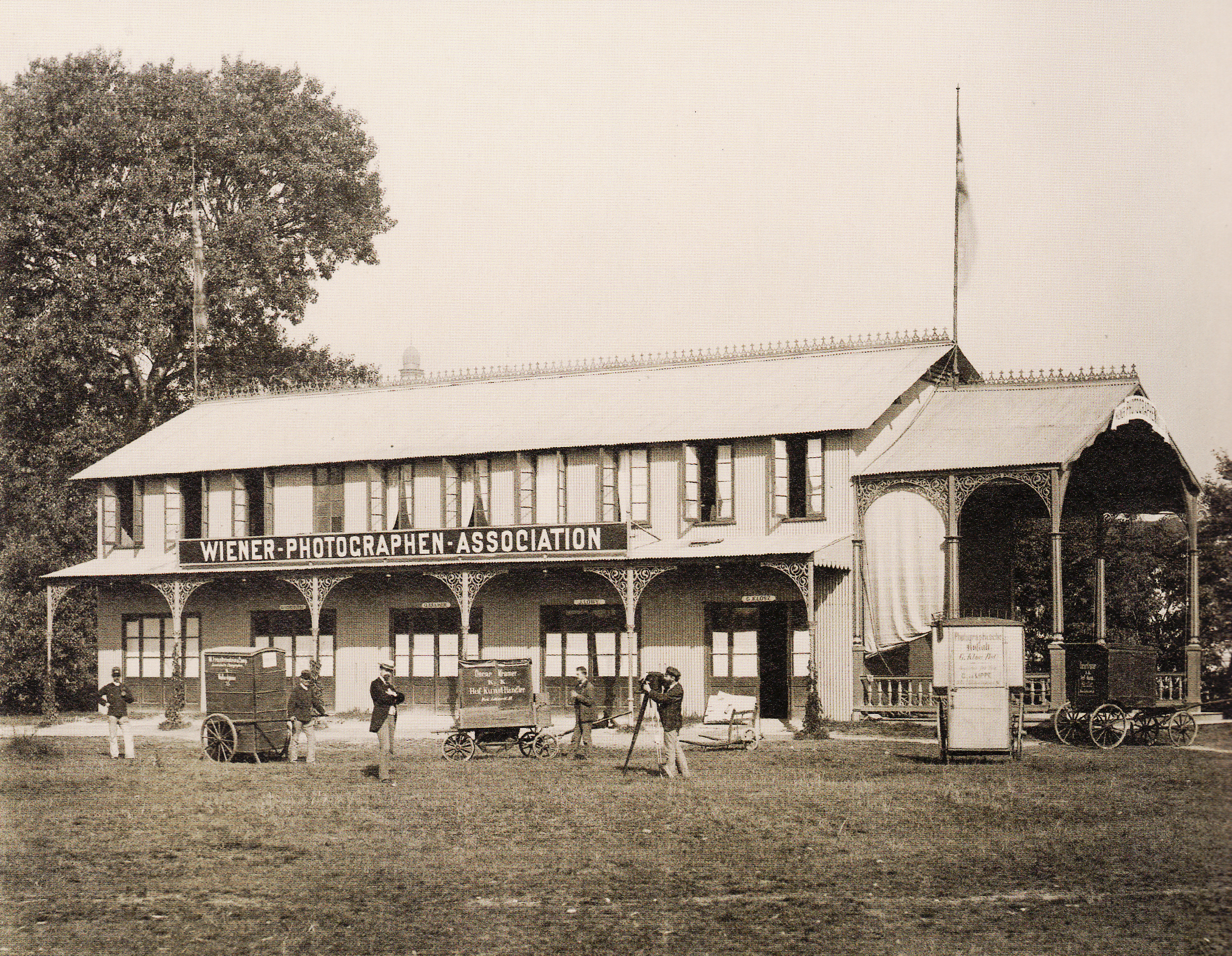 Building of Wiener Photographen-Association, Expo 1873